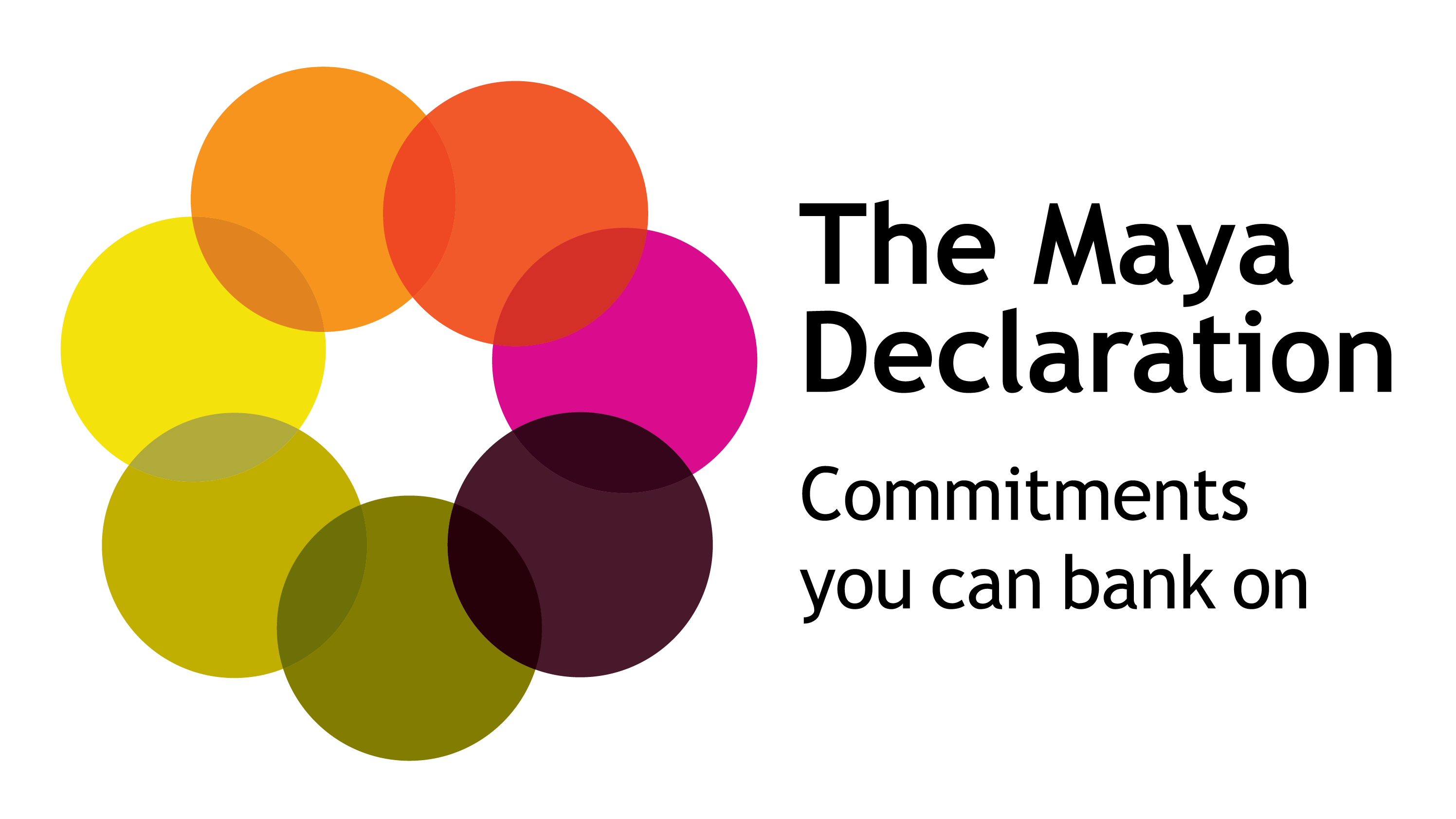 Maya Declaration Logo with Text